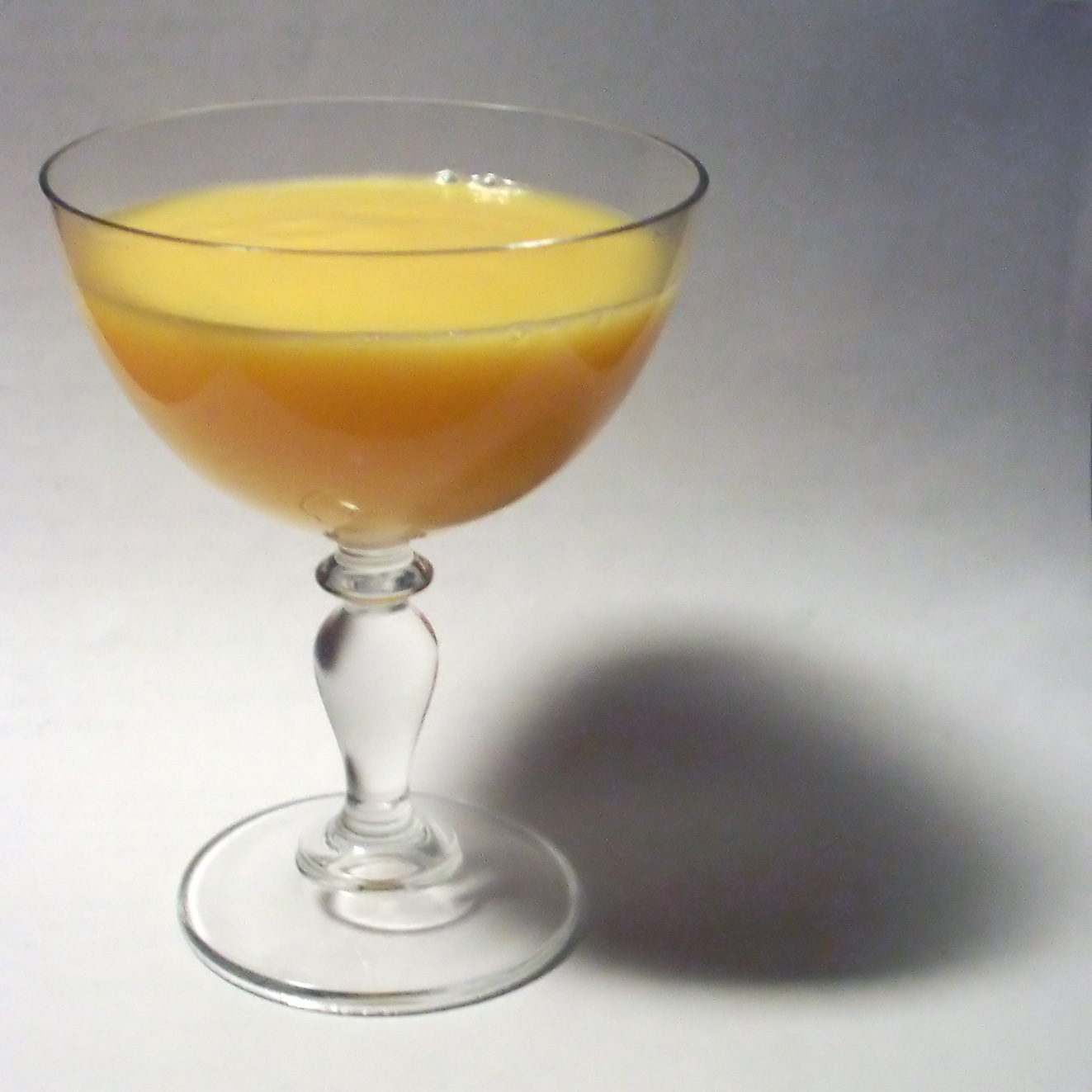 Advocaat